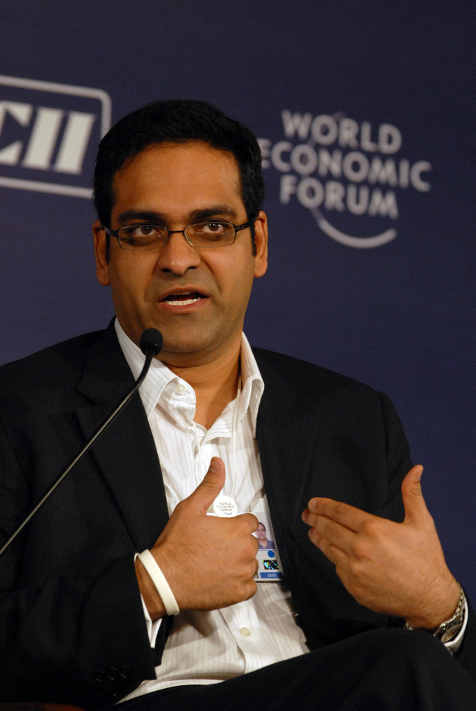 Shailesh Rao, Managing Director, Google India, speaking at a plenary session titled Big Bets on Technology and Manufacturing held at the World Economic Forum's India Economic Summit, 18 November, 2008, New Delhi.